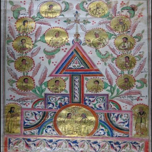 A fragment of illuminated charter of King Archil of Imereti.